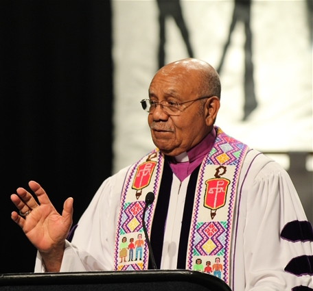 Bishop Melvin Talbert speaking.